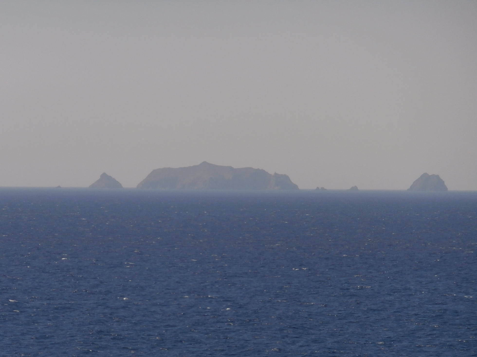 Ananes isles as seen from a ship on Heraklion-Piraeus route (from SW)